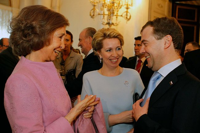 Dmitry Medvedev and Queen Sofia of Spain. S.-Petersburg. 24 feb 2011.